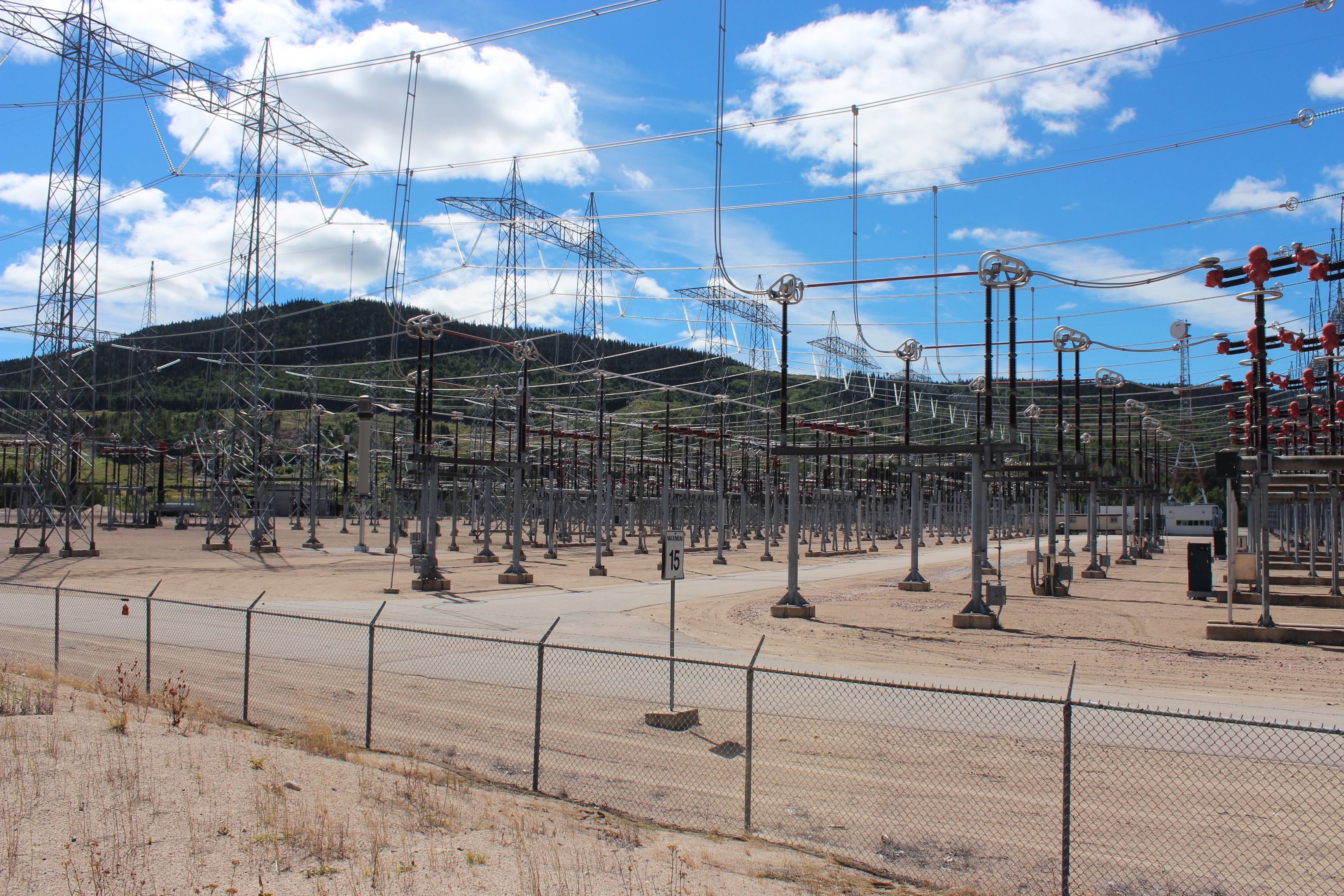 The Micoua post.